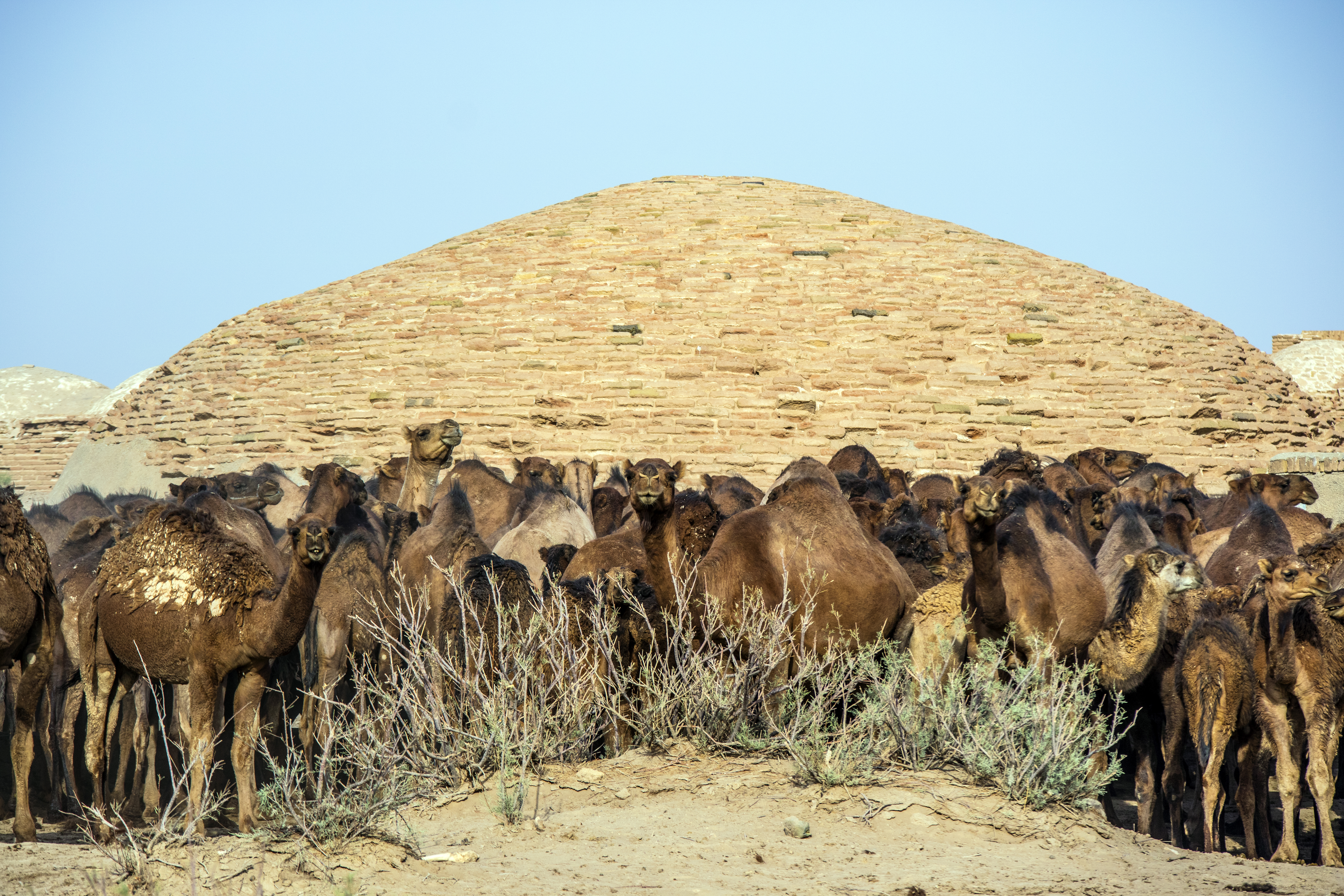 Deir-e Gachin Caravansarai is one of the greatest caravansarais of Iran which is located in the center of Kavir National Park. Its unique qualities is the reason it is called “Mother of Iranian Caravansarais”. It is located in the Central District of Qom County, 80 kilometers north-east of Qom (60 kilometers into Garmsar Freeway) and 35 kilometers south-west of Varamin. (Photo by: Mostafa Meraji, wiki loves monuments 2018)